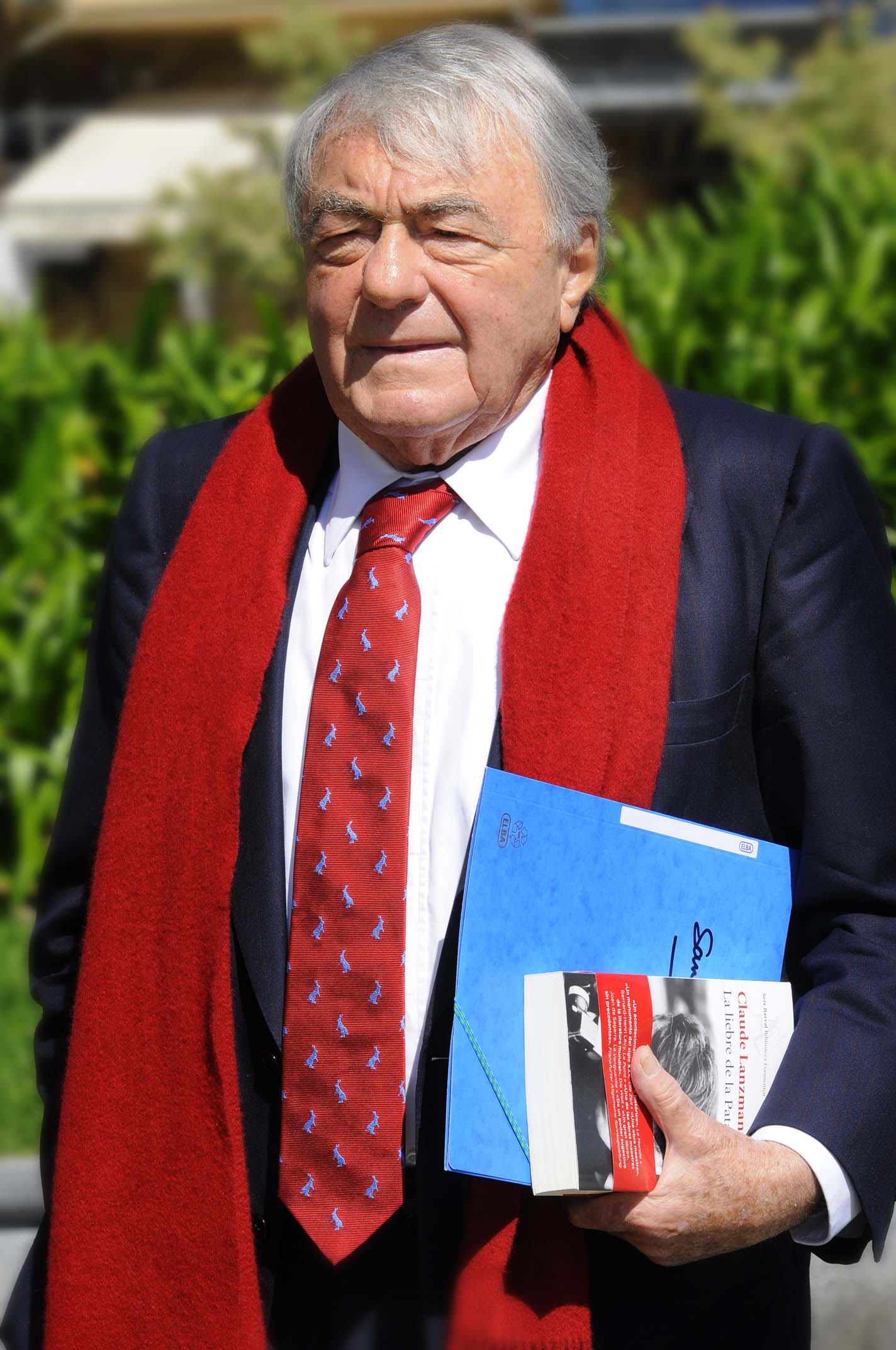 Claude Lanzmann at Donostia in 2011, at Literaktum festival.